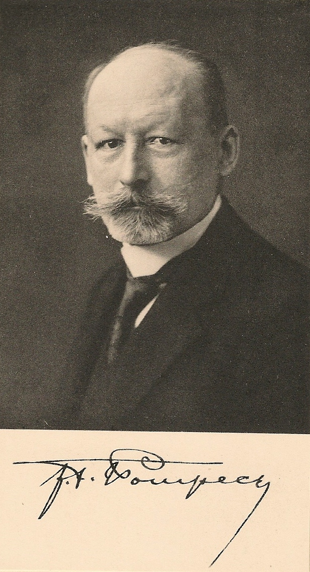 Josef Felix Pompeckj